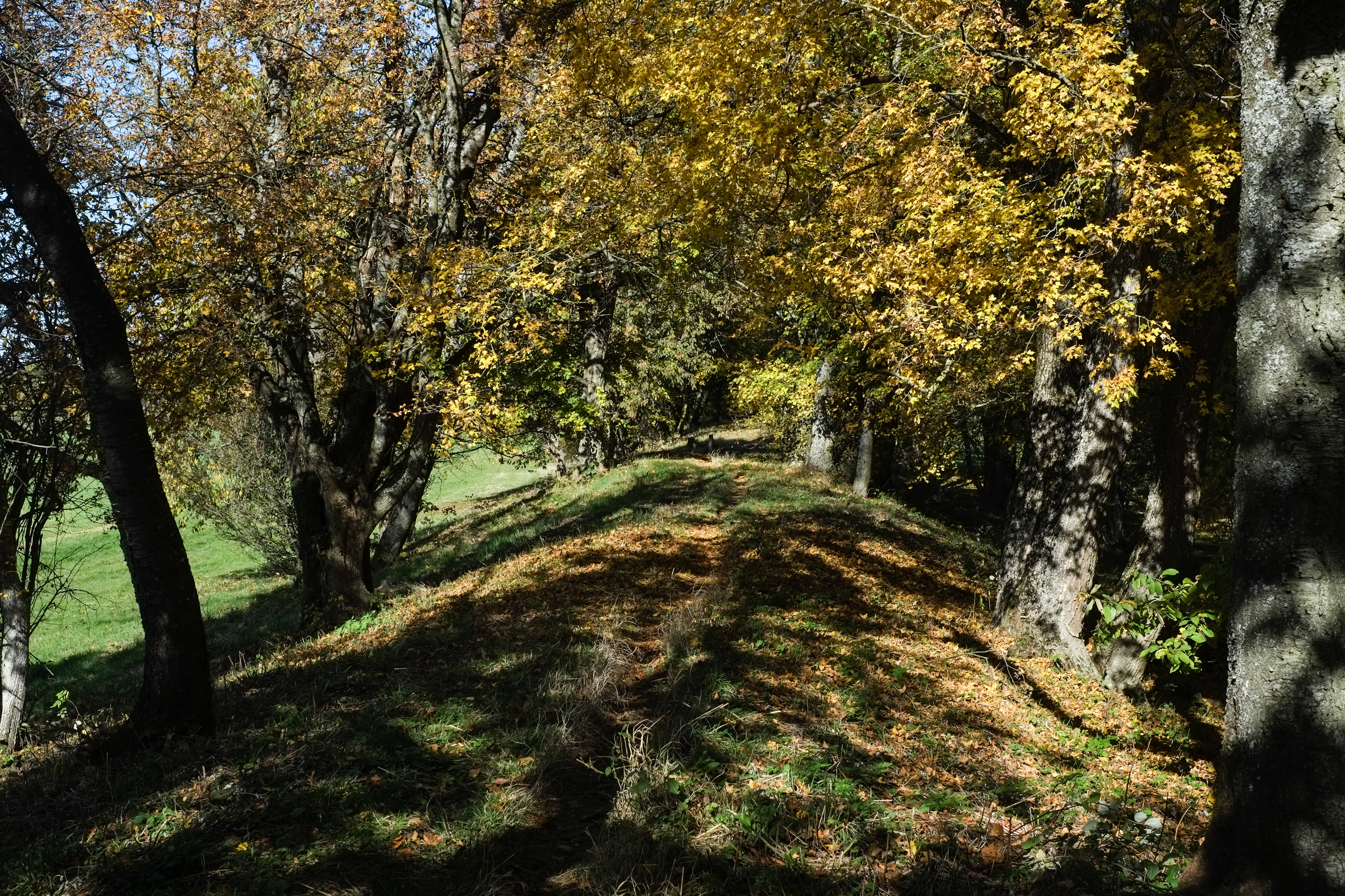 Celtic oppidum Heidengraben, earthworks of the Elsachstadt near Grabenstetten, Baden Wurttemberg, Germany